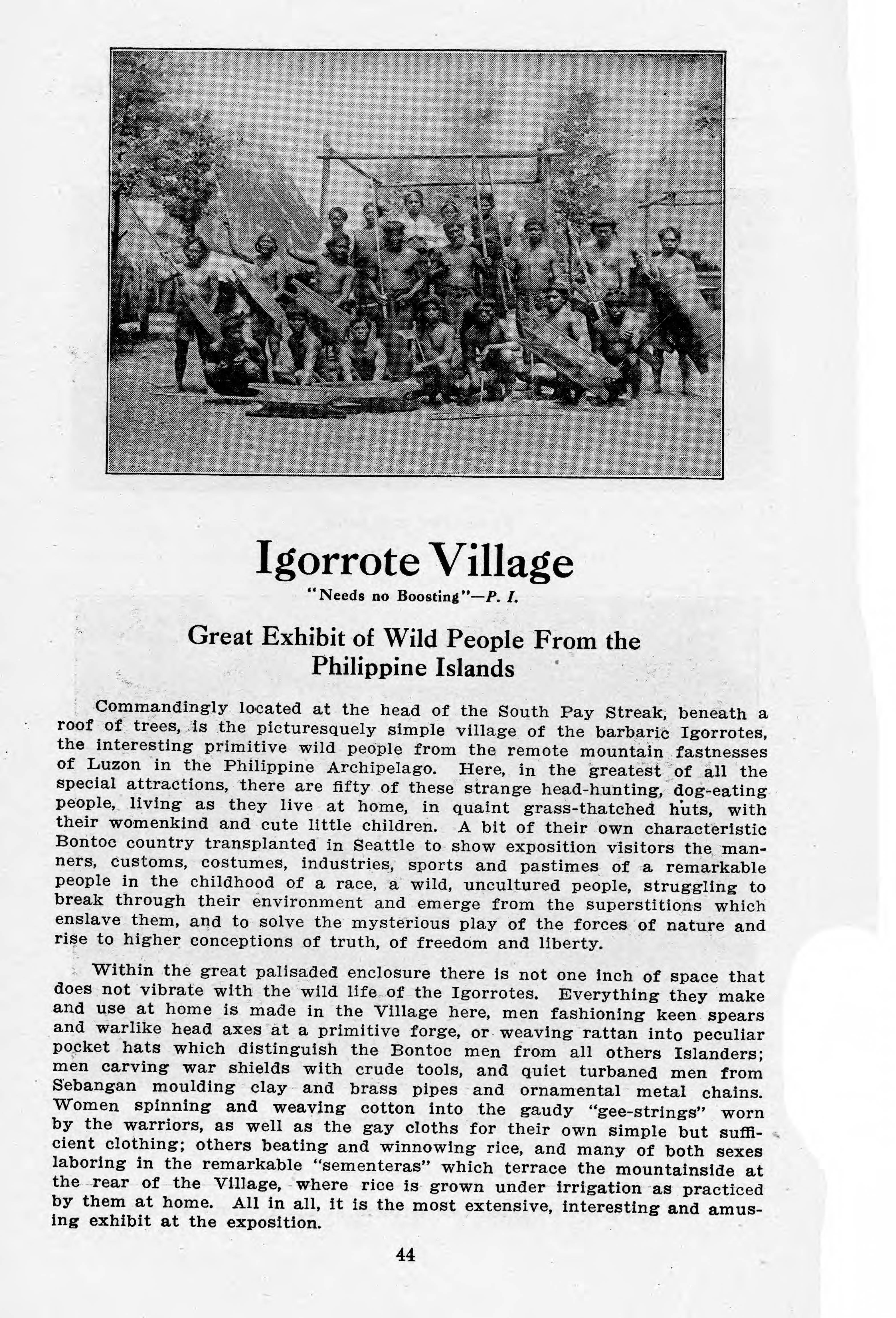 From the materials for the Alaska-Yukon-Pacific Exposition of 1909, held in Seattle.